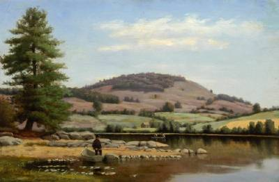 Oil on canvas titled: "Fishing on Fairlee Pond, Mount Mansfield, Vermont"